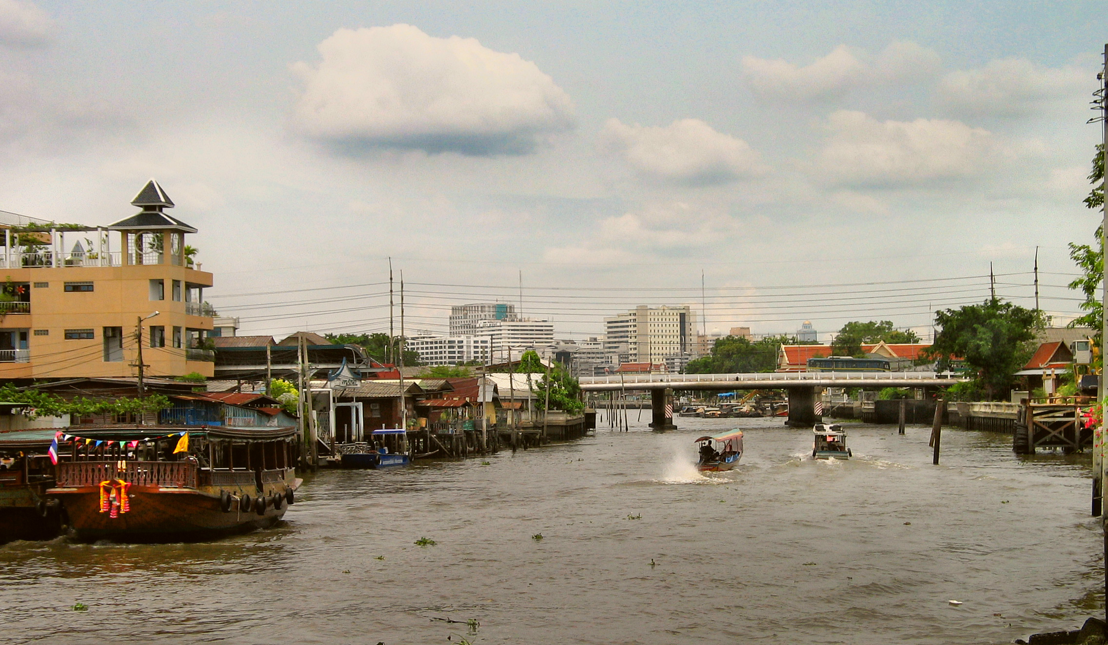 Khlong Bangkok Noi near Wat Sisudaram, Bangkok Noi district, Bangkok